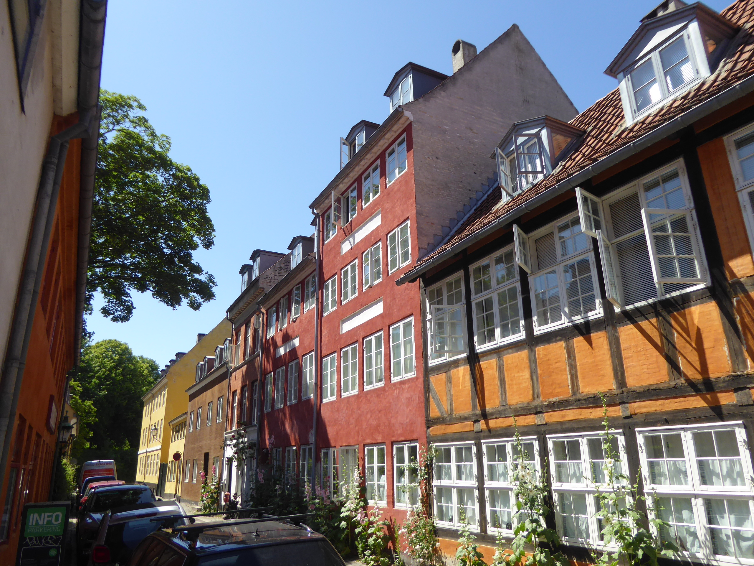 Apartment buildings at Amagergade in Christianshavn in Copenhagen. The red buildings in the middle were used for exterior shots as the titular house in the Danish television comedy series Huset på Christianshavn (The House at Christianshavn) from 1970 to 1977.